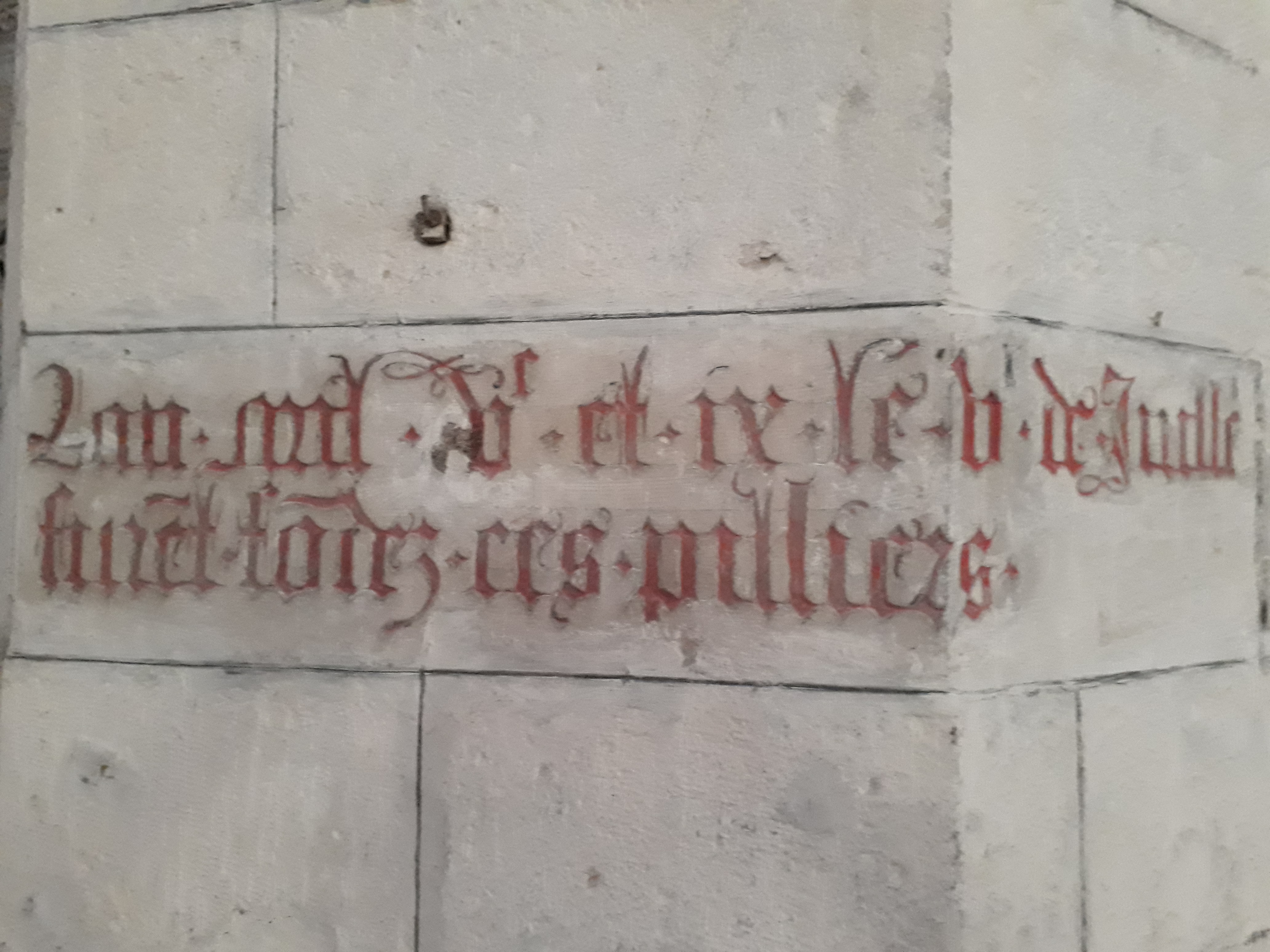 "The year one thousand V h(undred) and IX on the Vth of July were fo(un)ded these pilars."